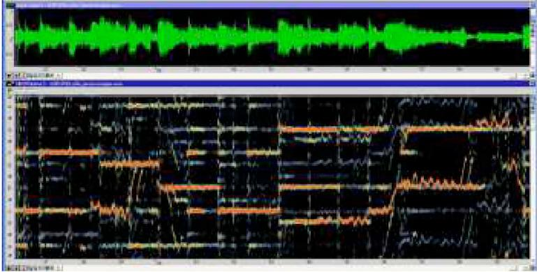 Example of a high-resolution HPCP sequence (bottom panel) corresponding to an excerpt of the song “Imagine” by John Lennon (top panel). In the HPCP sequence, time (in frames) is represented in the horizontal axis, and chroma bins are plotted in the vertical axis.